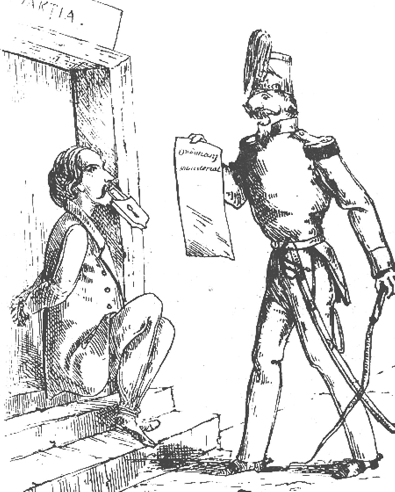 Libertatea presei ("Press Freedom"), cartoon-lithograph in the Romanian almanac Nikipercea, satirizing the regime of Prince Cuza. Reference is made to the new laws regulating censorship by ministerial order. The journalist, pictured to the left under the sign Redakția ("Editorial Office"), has his hands bound and his lips secured with a lock. On the right, a policeman armed with a whip holds up a paper marked Ordonanz Ministerial ("Minister's Ordinance").